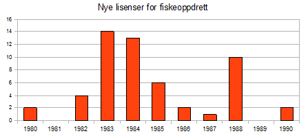 New licenses for fish farming in the Faroe Islands in the period 1980–1990. Numbers from J. C. S. Justinussen's Fanget i fisken? (1997). Created in OpenOffice Calc.